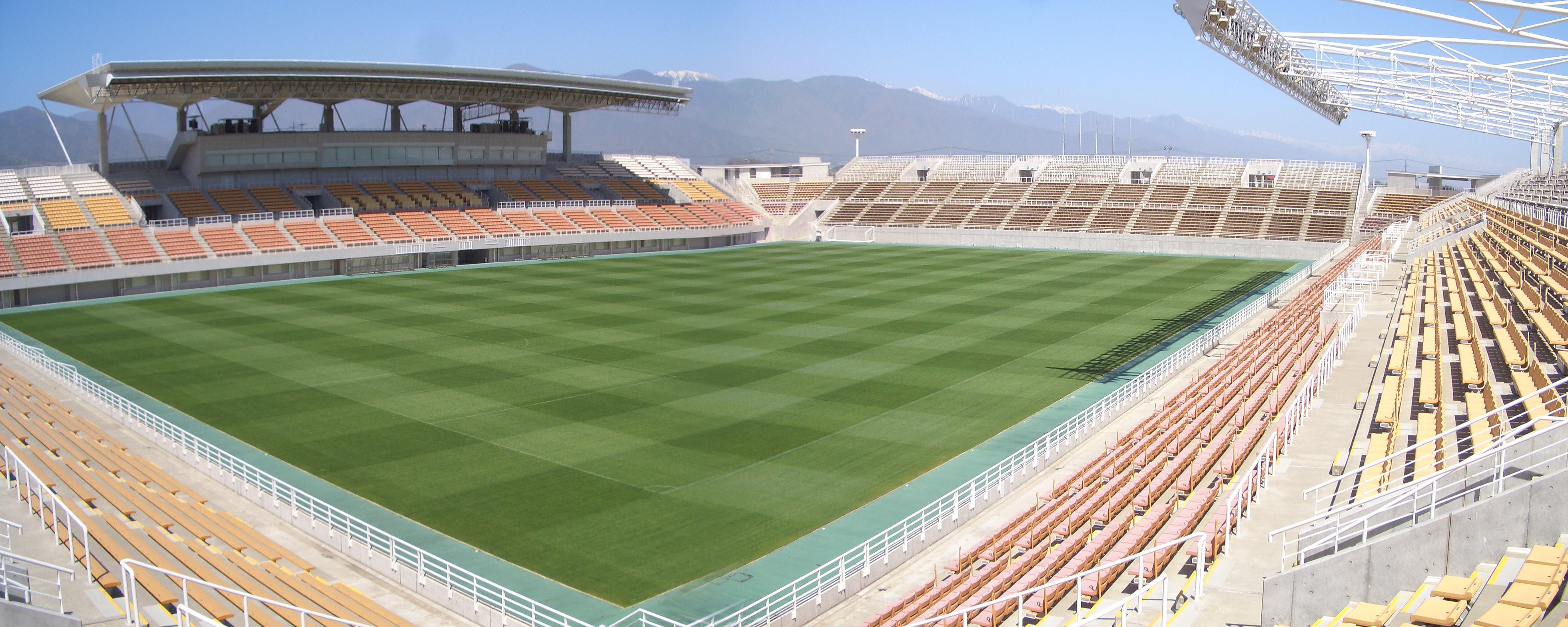 Matsumoto Global Park Football-Stadium. (Another name:Alwin)